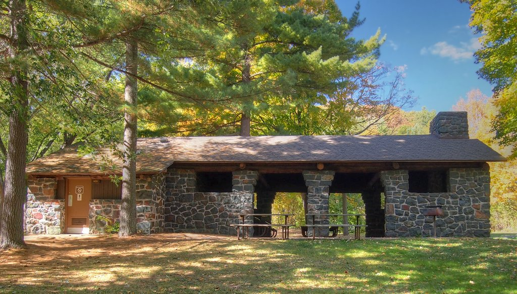 Shelter/Refectory, Interstate State Park, Minnesota, USA. HDR composite.